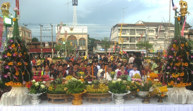 Khukhan District, Sisaket Province